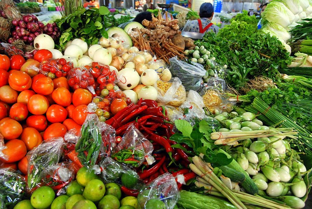 Fresh herbs, fresh spices and vegetables sold at a stall in Thanin Market, Chiang Mai, Thailand.